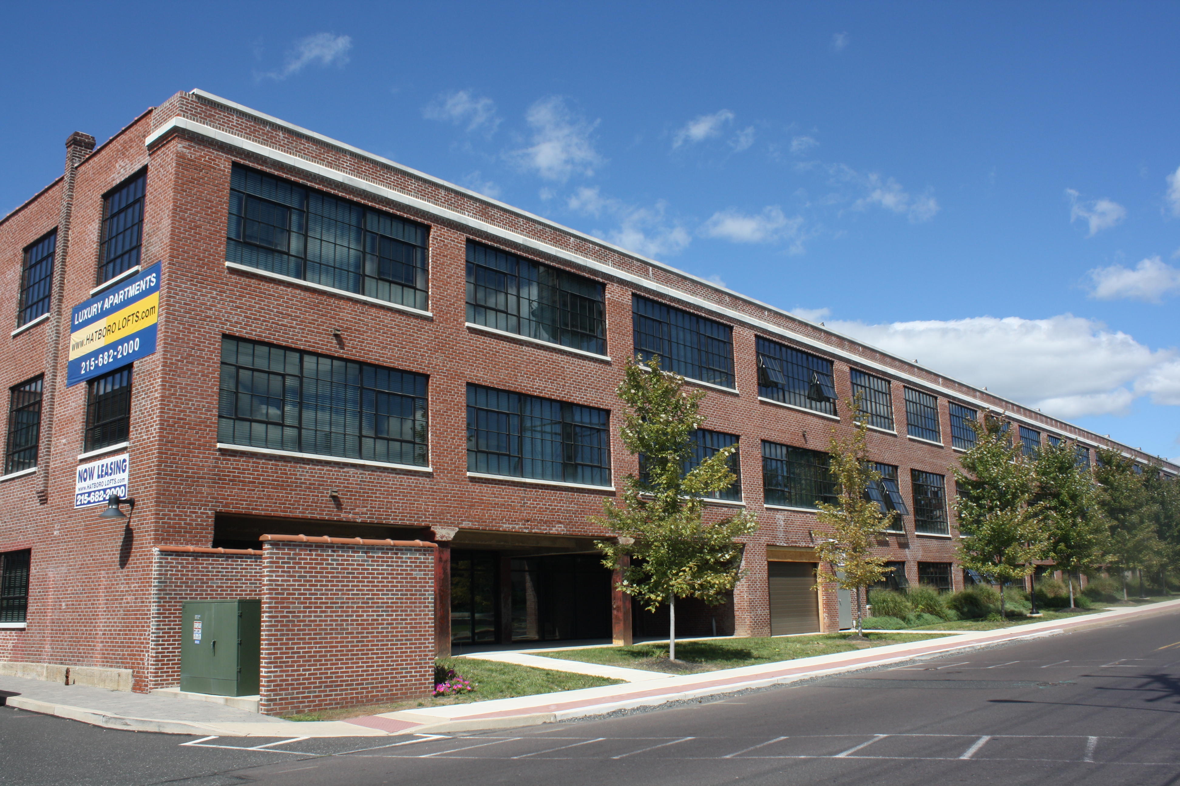 Roberts and Mander Stove Company Buildings Roberts and Mander Stove Company Buildings is a historic factory complex located at Hatboro, Montgomery County, Pennsylvania. Main Manufacturing Building (1915-1944), street view (Jacksonville Rd.).